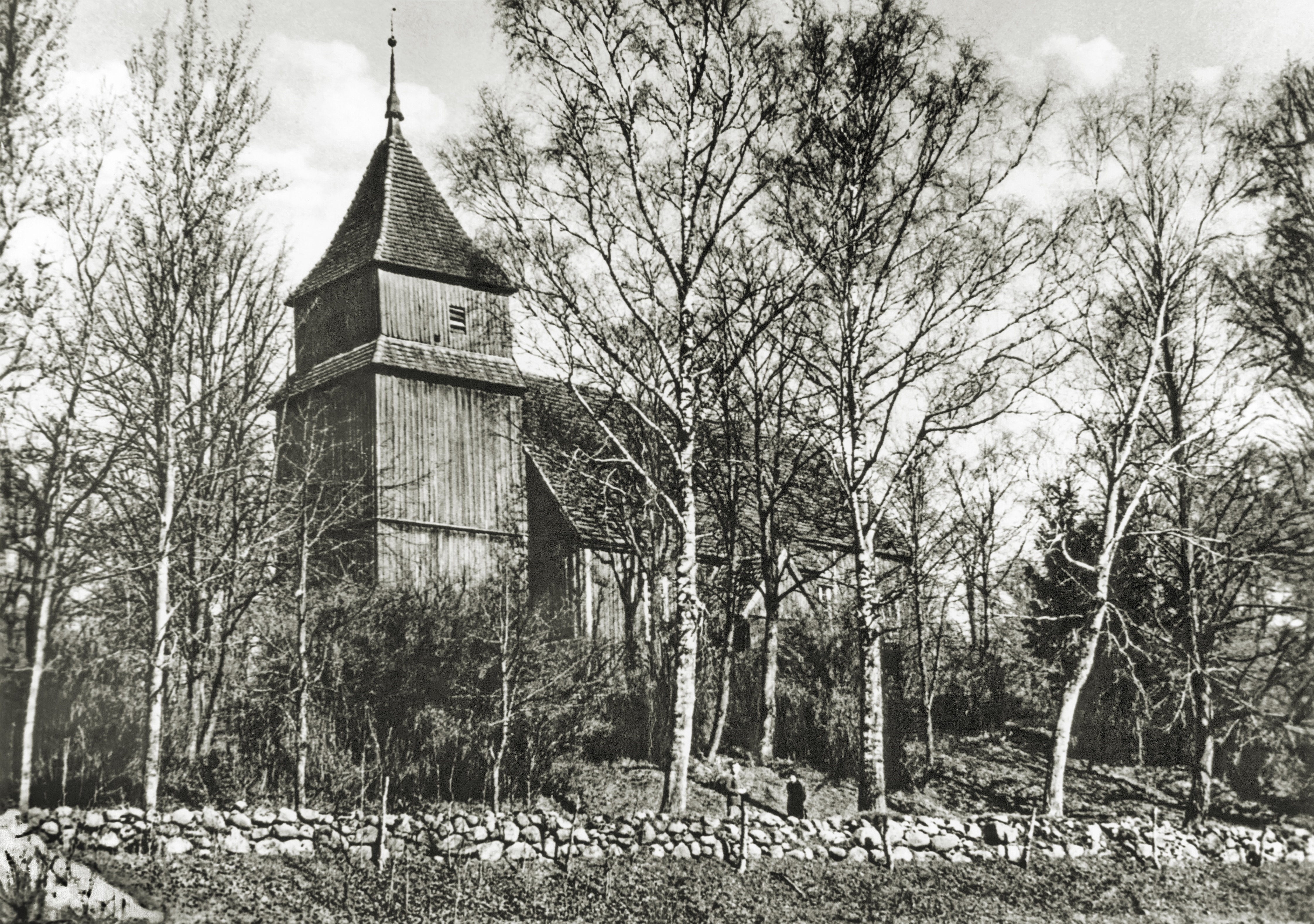 Wooden church of the Nativity of the Virgin Mary in Wielitzken, East Prussia (modern Poland